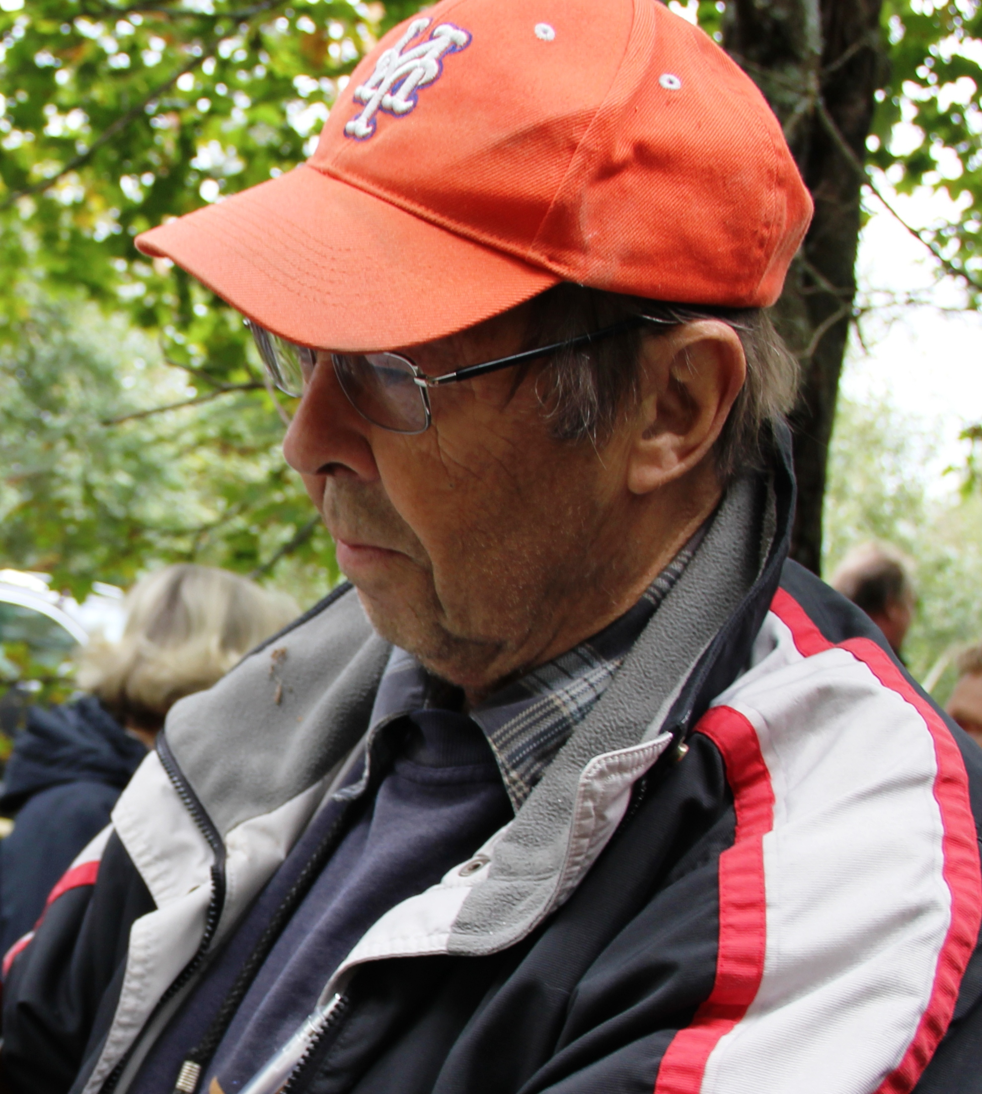 Pekka Häyry (1939–2020), professor (emeritus) at University of Helsinki.